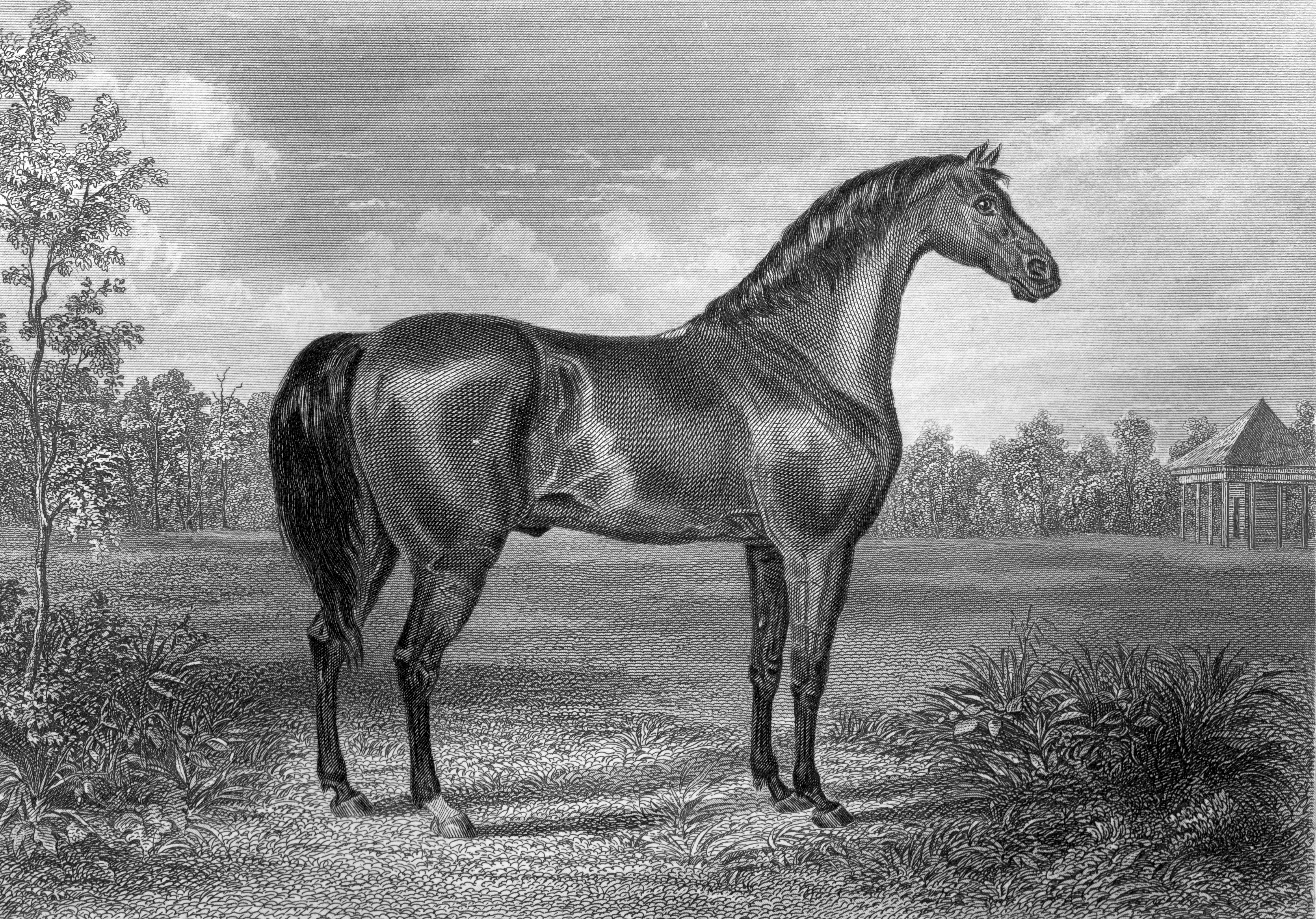 Sir Archy, famous American Thoroughbred stallion